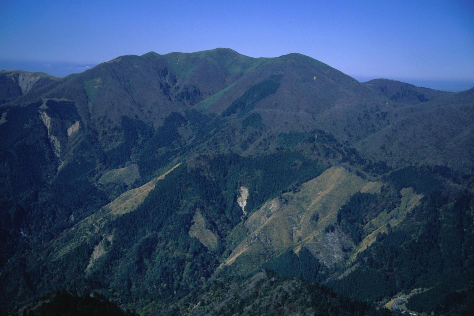 Mount Amagoi seen from Mount Kama in Suzuka Mountains, Japan.